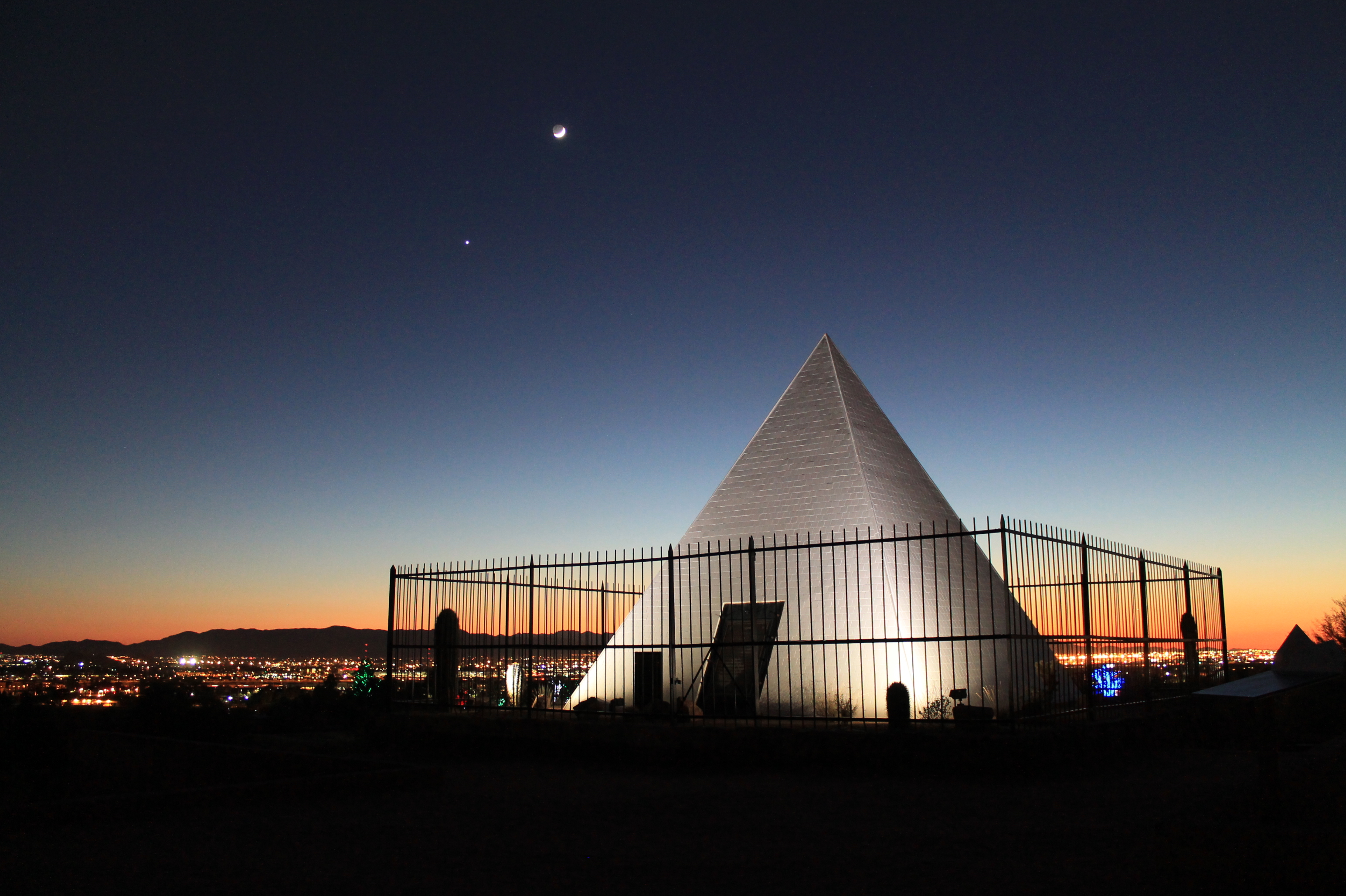 Hunt's Tomb under a waning crescent moon in Papago Park, Phoenix Arizona, with the lights of Phoenix beyond.